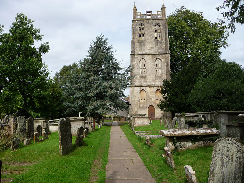 Berkeley churchyard and bell tower St Mary the Virgin Church, Berkeley. The tower stands detached to the north in the churchyard.